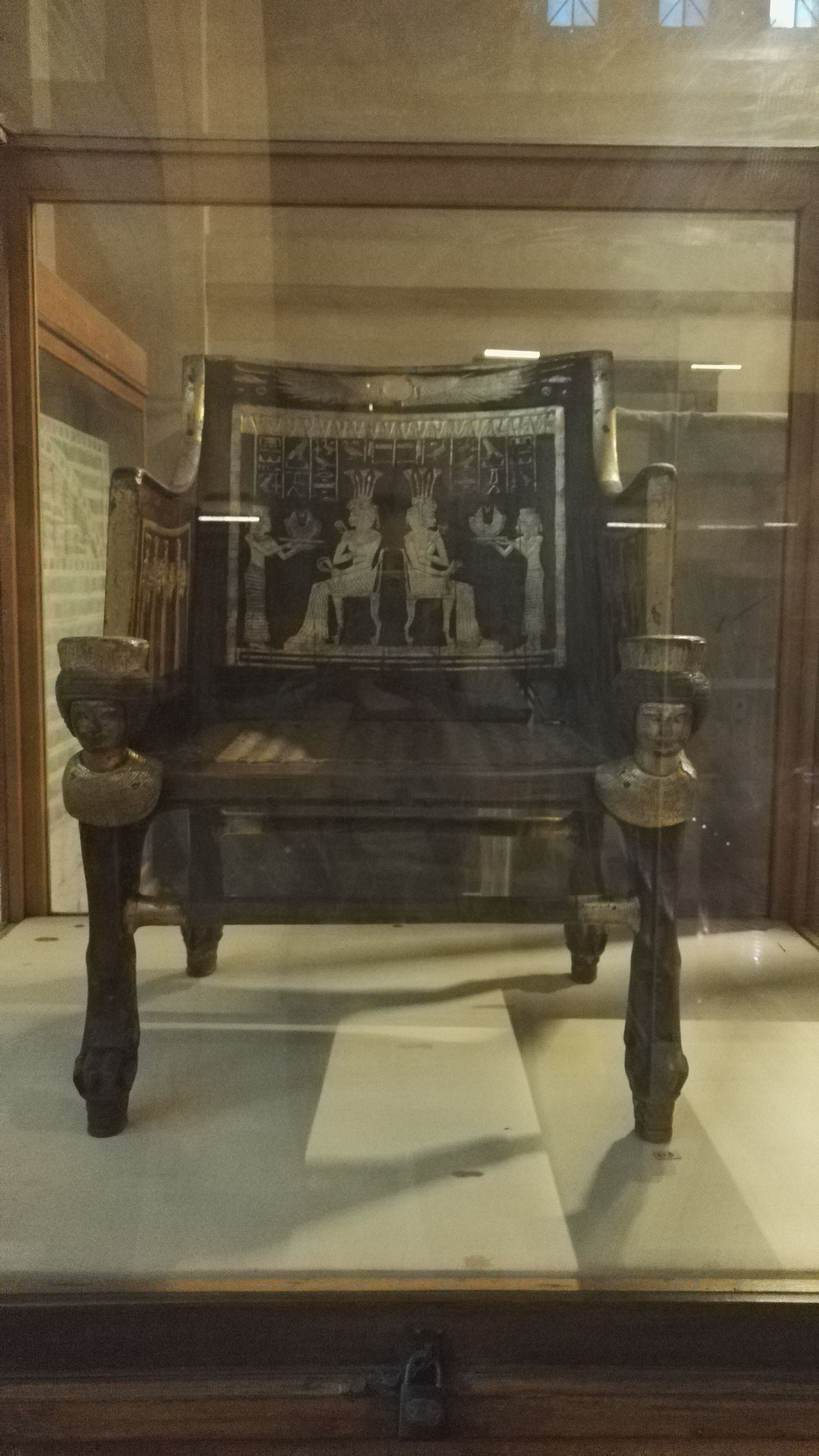 Throne of Princess Sitamun of the 18th dynasty of Egypt, in the Egyptian Museum, Cairo.